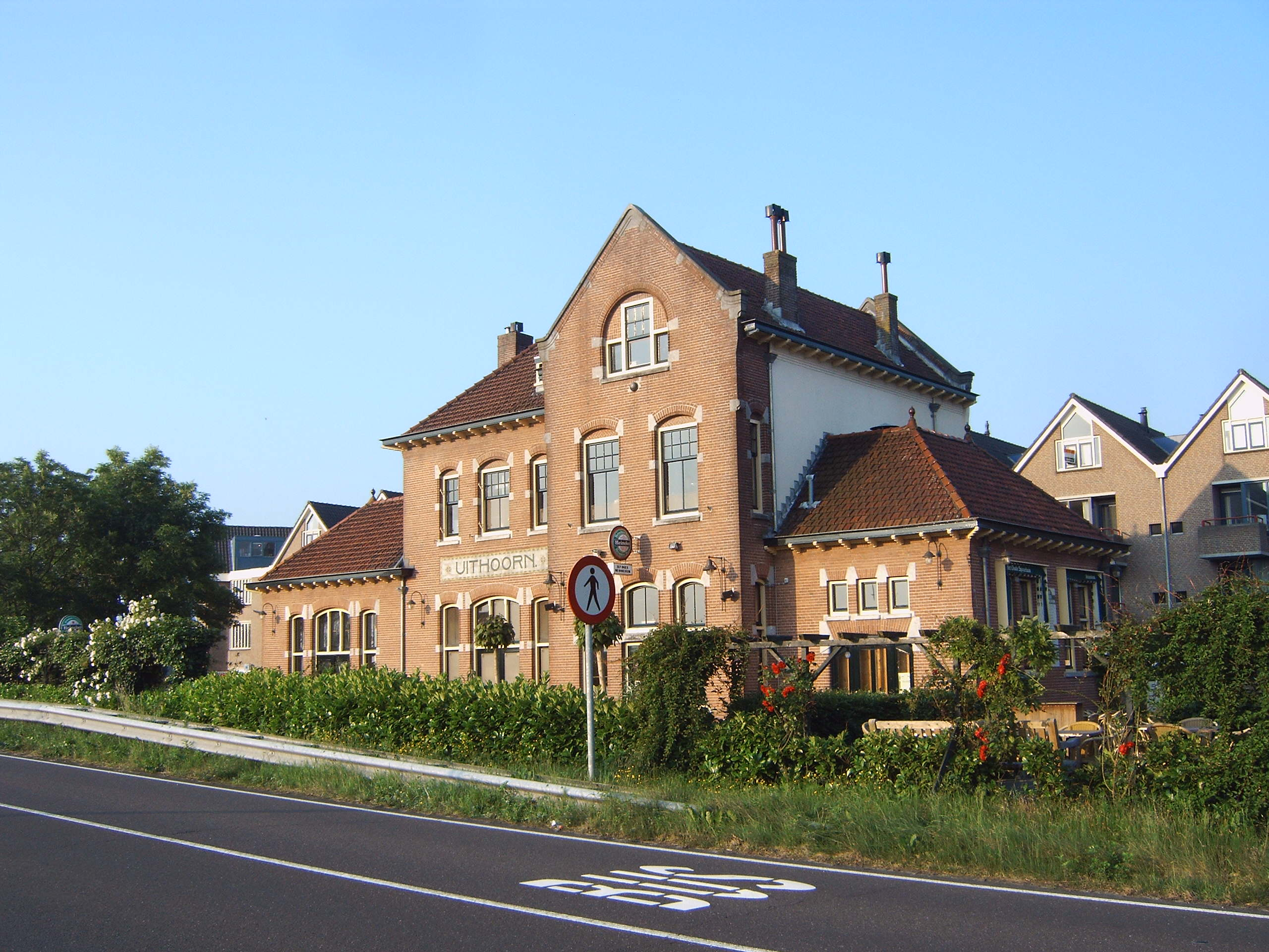 Former railway station, Uithoorn, the Netherlands, now a café